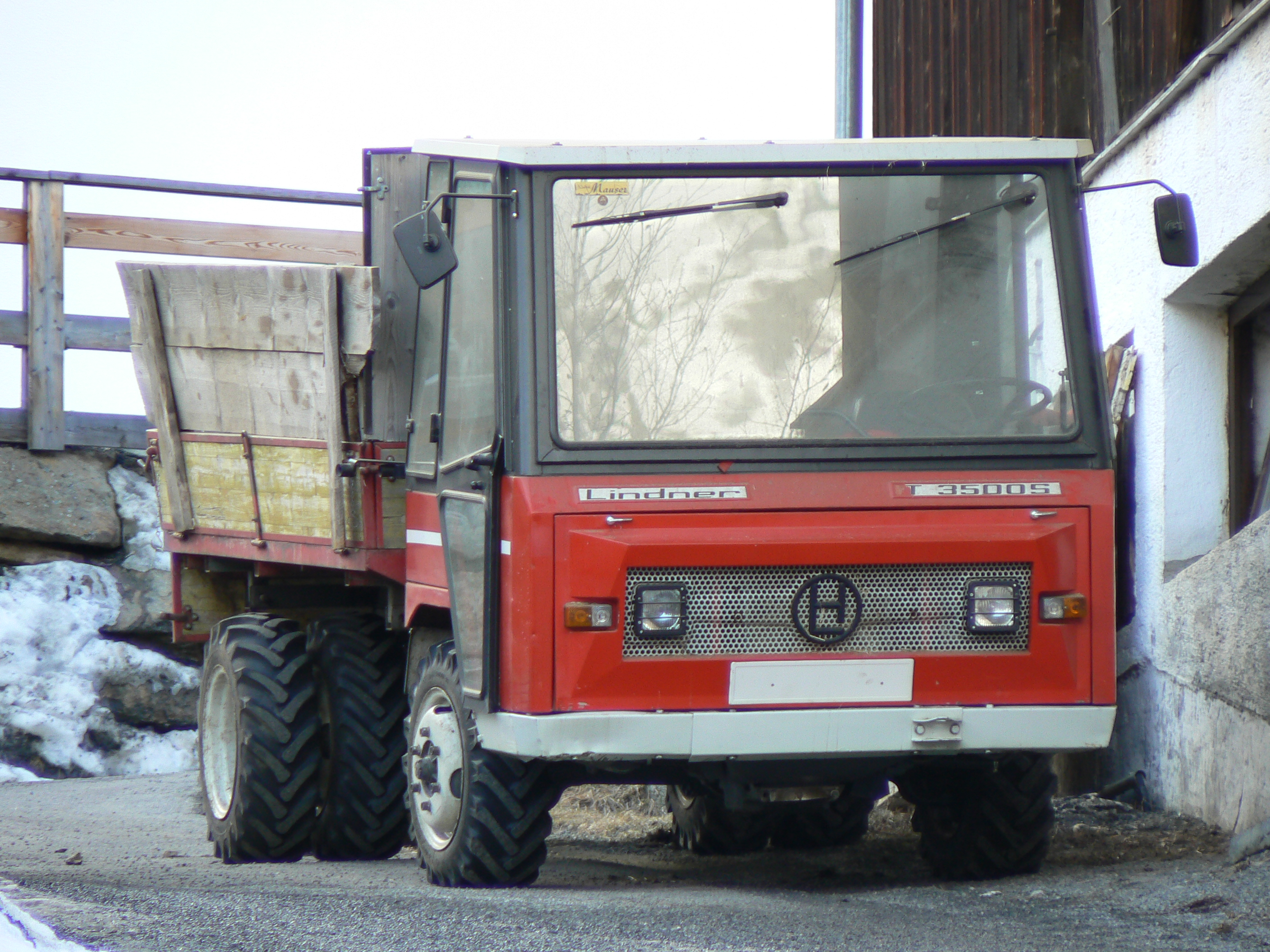 Lindner T 3500S, a truck made by the Austrian company "TRAKTORENWERK LINDNER GmbH".